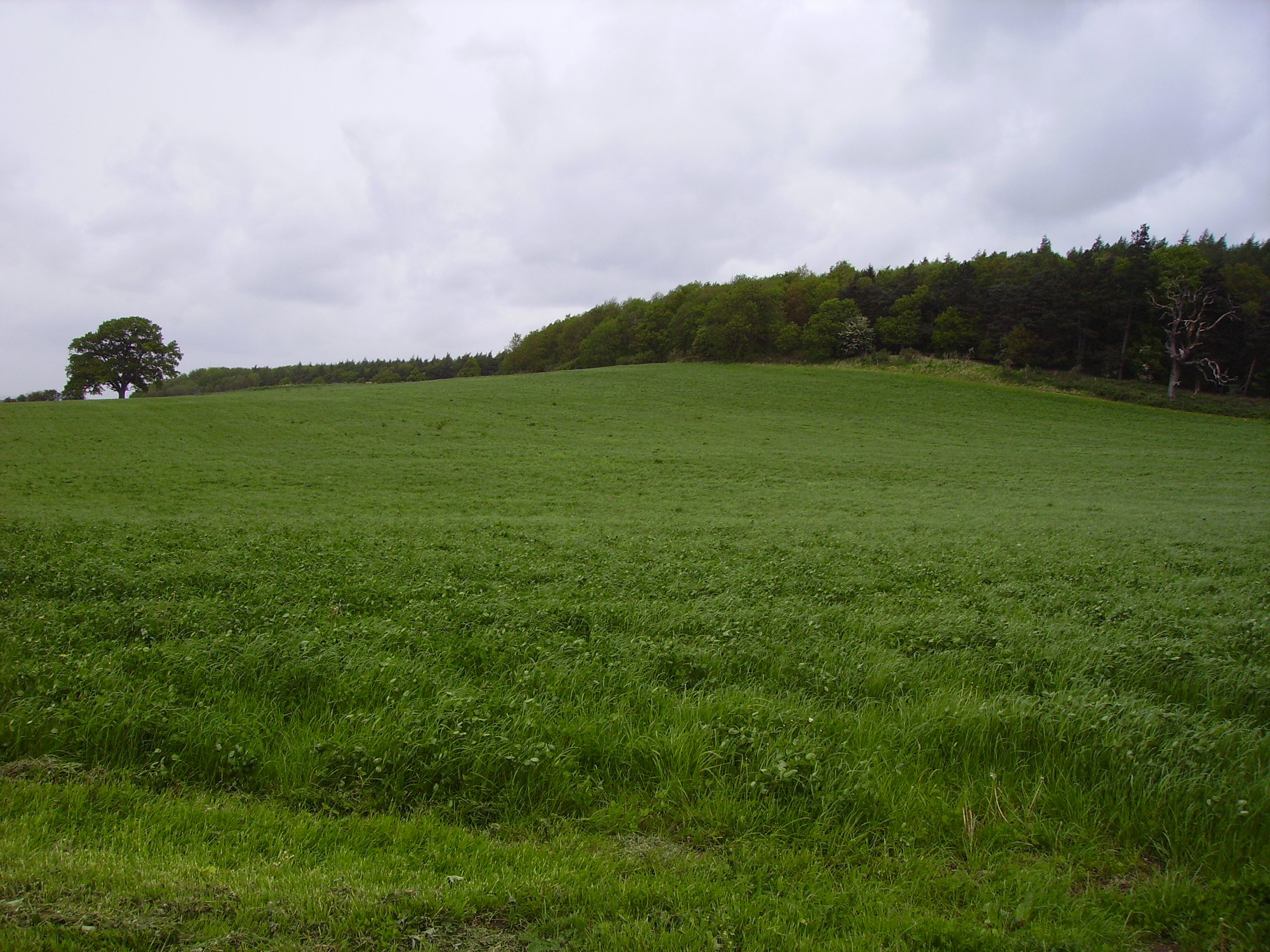 Photographer: User:Ballista